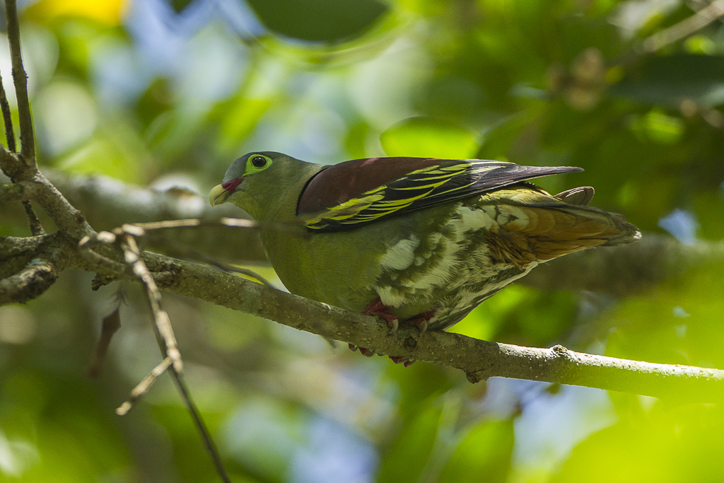 Thick-billed Pigeon - Khao Yai NP - Thailand_S4E5772